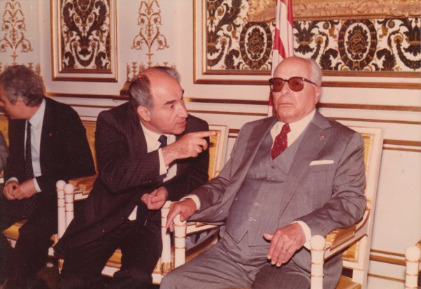 Late Tunisian president Habib Bourguiba with former prime minister Mohamed Mzali